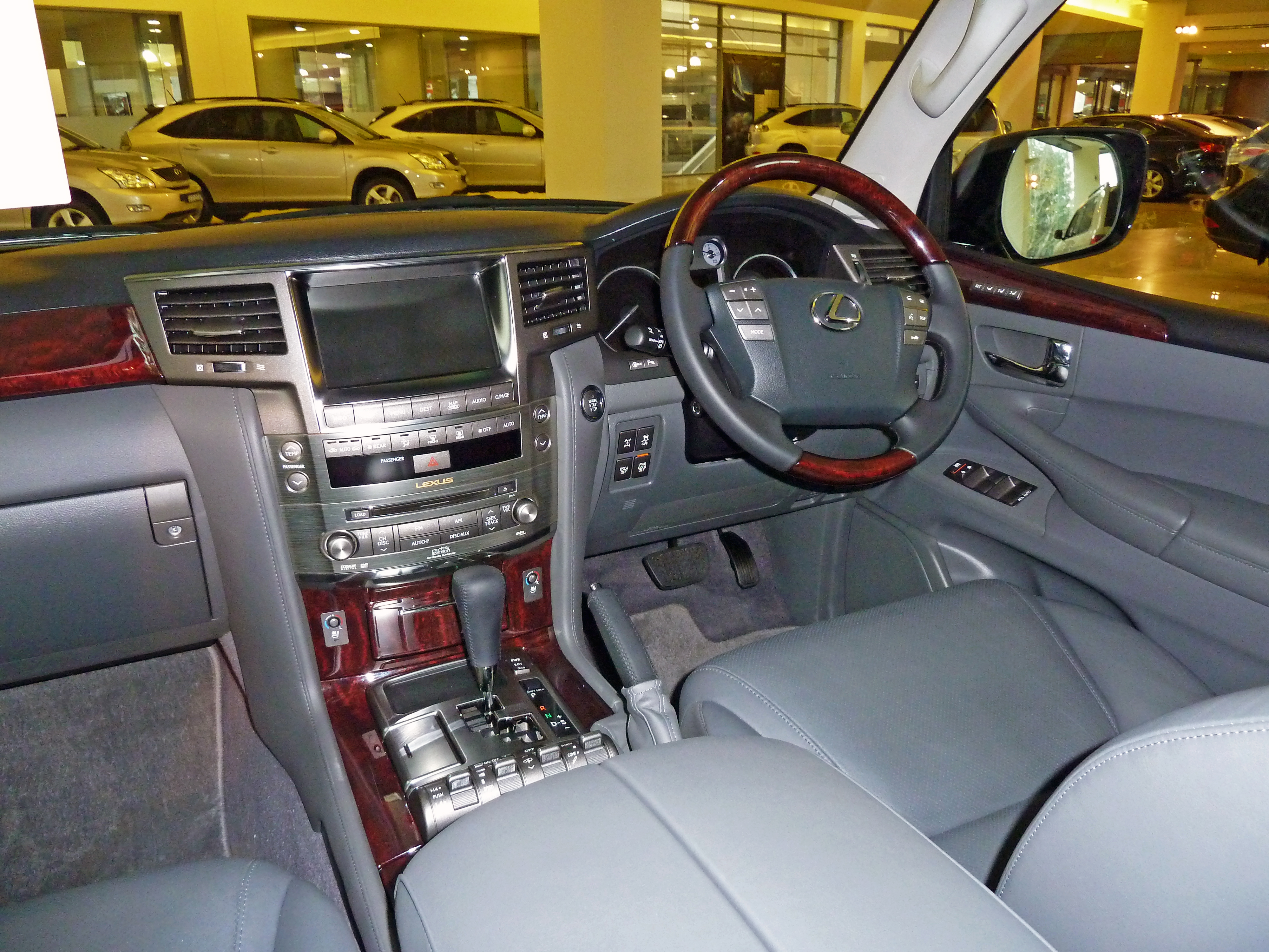 2009 Lexus LX 570 (URJ201R) Sports Luxury wagon. Photographed at Sydney City Lexus, Waterloo, New South Wales, Australia.